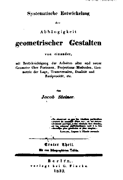 first edition's front page of Systematische Entwickelung der Abhängigkeit geometrischer Gestalten von einander